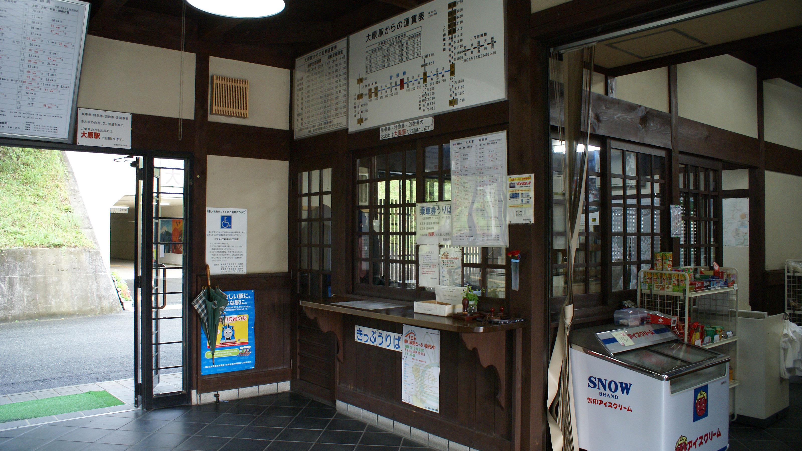 Ohara Station in Mimasaka, Okayama prefecture, Japan